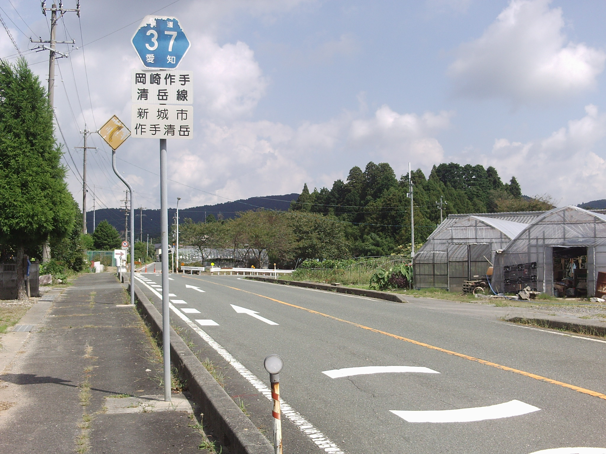 Aichi prefectural road No.37 in Tsukudekiyooka, Shinshiro, Aichi.